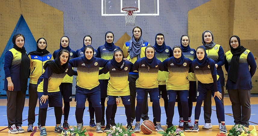 Iranian women basketball league Final - Namino